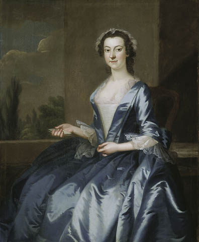 John Wollaston - Portrait of a Woman